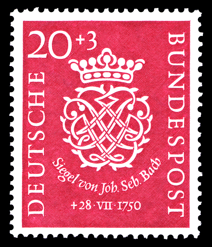 Stamp 1950 for 200 years of death of Johann Sebastian Bach (1685-1750) Graphics by Georg Trump Ausgabepreis: 20+3 Pfennig First Day of Issue / Erstausgabetag: 28. Juli 1950 Michel-Katalog-Nr: 121